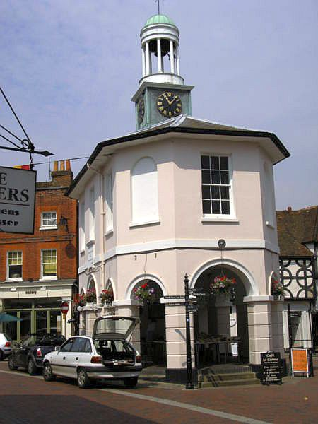 A lighter version of Godalming Pepperpot.JPG